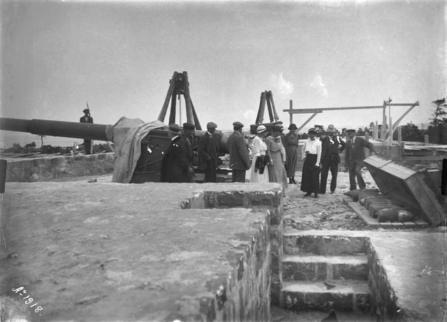 Russian fortifications on Boxö island in Saltvik, Åland islands.